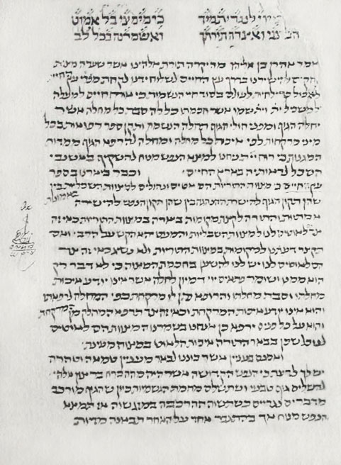 Created by Sharon Mooney, and based from Gan Eden, by Aaron ben Elijah, "the Younger" (1317-1369). Manuscript on paper, dating around the 14th or 15th century. Oriental semi-cursive script. Original, from Judaica in Leiden. Image may be redistributed on condition original credits remain intact.